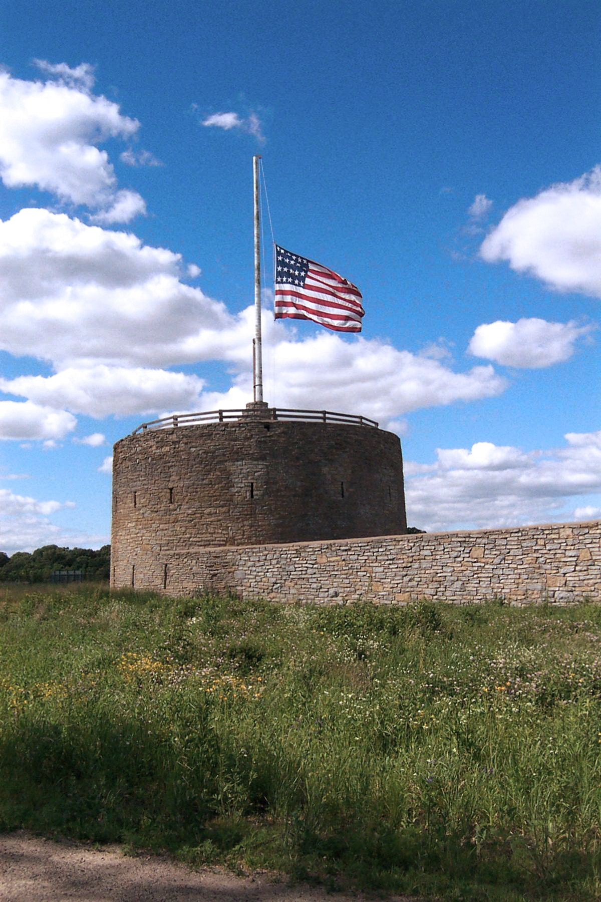 I took this photo of Fort Snelling's round tower, the one surviving piece of the original fort, in June of 2004. The flag is at half-staff because of the recent death of former President Ronald Reagan.